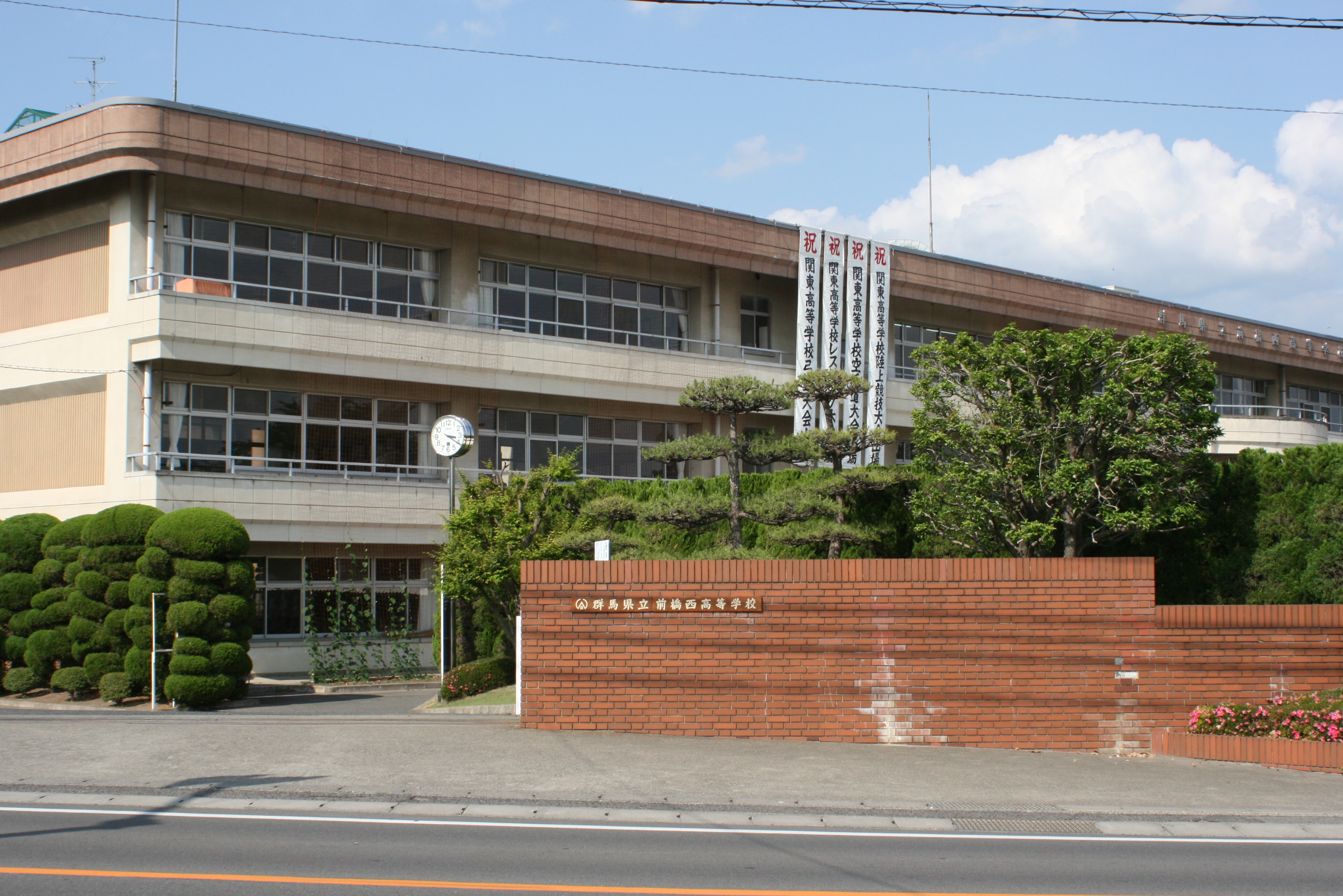 Gunma prefectural Maebashi West high school